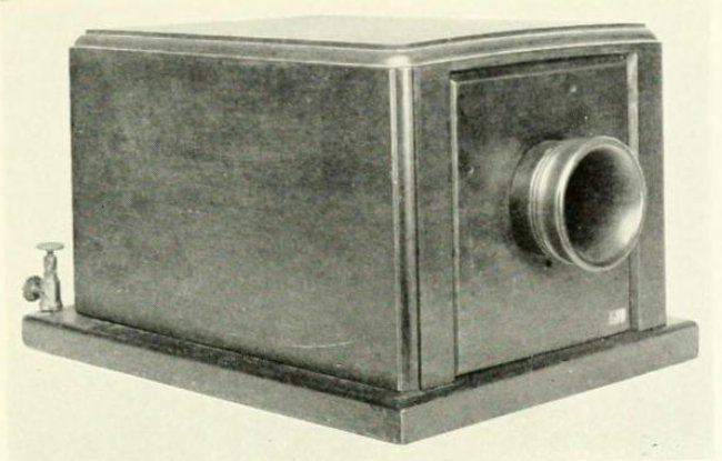 Box telephone of 1877, the first commercial telephone